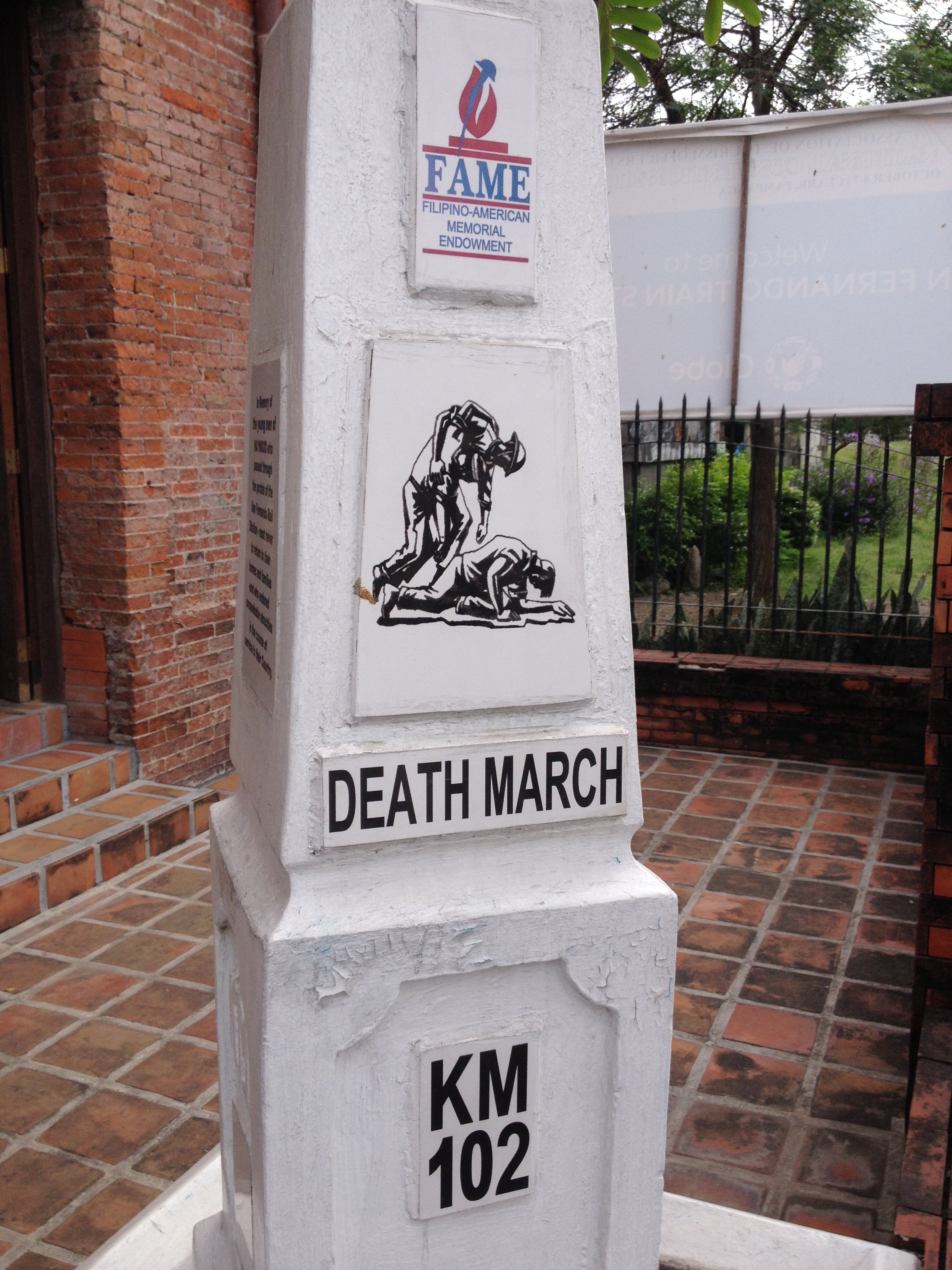 Death March marker at the San Fernando train station. The 102nd kilometer from the initial point in Bataan after the combined Filipino and American troops surrendered to the Imperial Japanese.